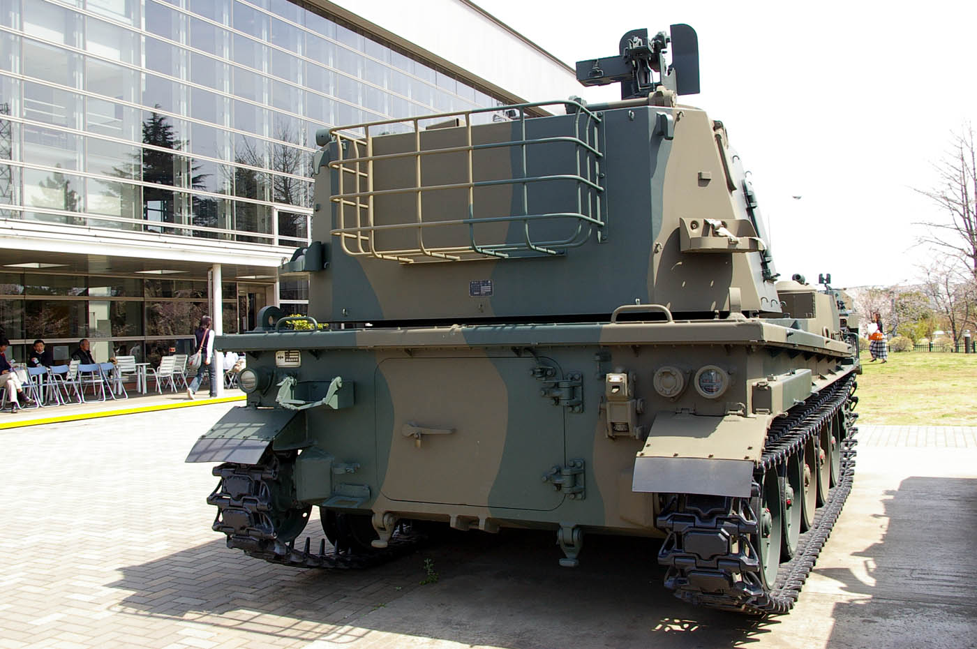 Taken by los688,5-Apr-2008,JGSDF Type 75 155 mm Self-Propelled Howitzer,JGSDF Public Information Center.PD-self. ja:2008年4月5日、投稿者撮影。74式自走105mmりゅう弾砲。陸上自衛隊朝霞駐屯地陸上自衛隊広報センター。